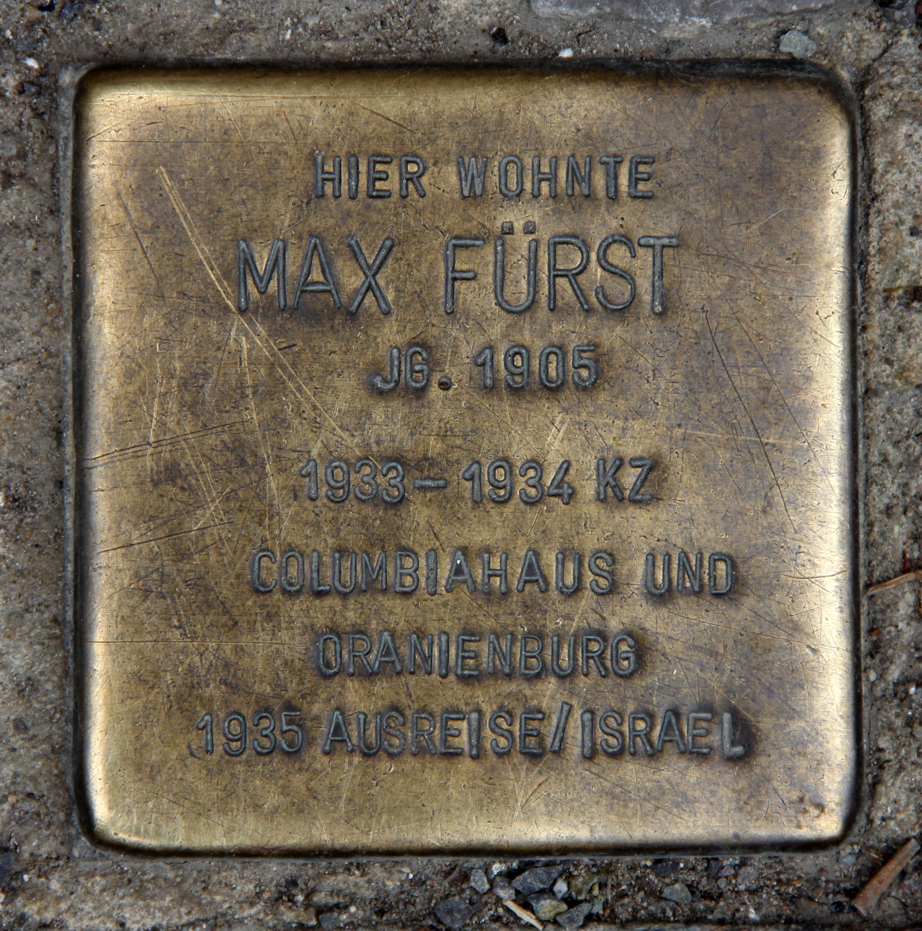 "Stolperstein" (stumbling block), Max Fürst, Zolastraße 1a, Berlin-Mitte, Germany